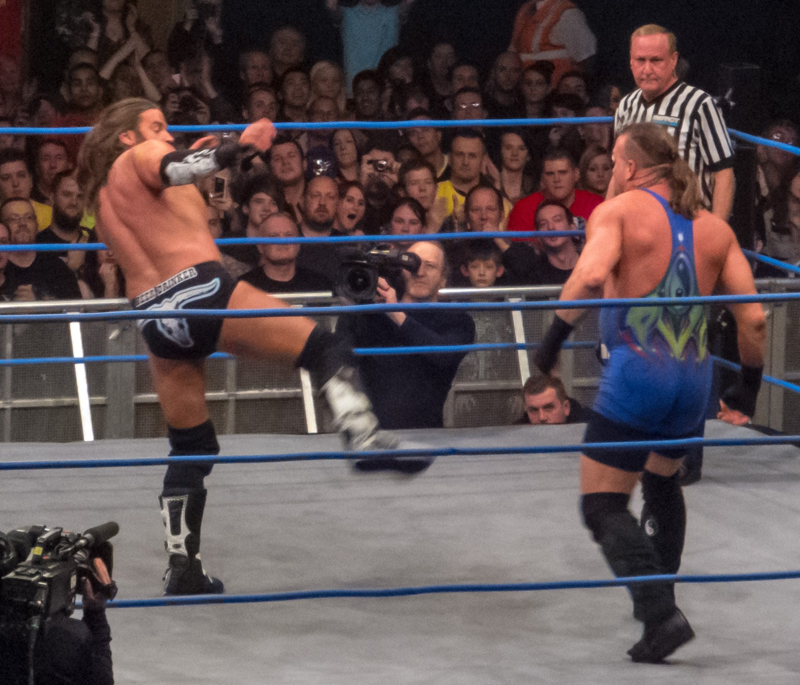 James Storm last call